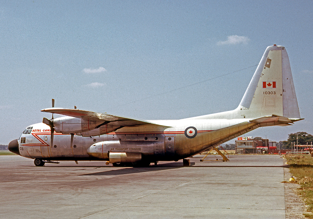 Lockheed C-130B Hercules of 435 Squadron Air Transport Command Royal Canadian Air Force at London Gatwick Airport in 1966